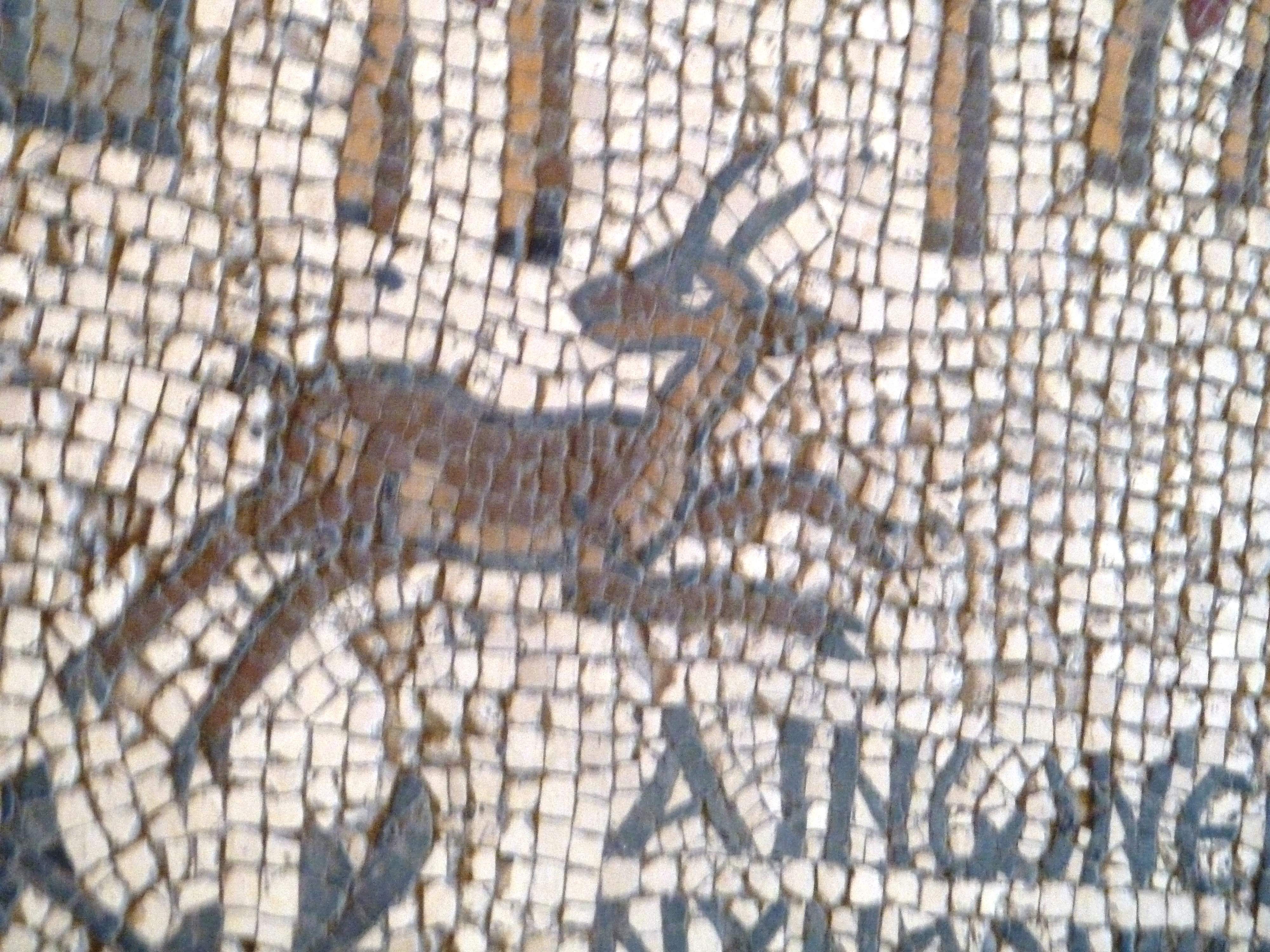 Byzantine floor mosaic map at St. George Church, Madaba, Jordan